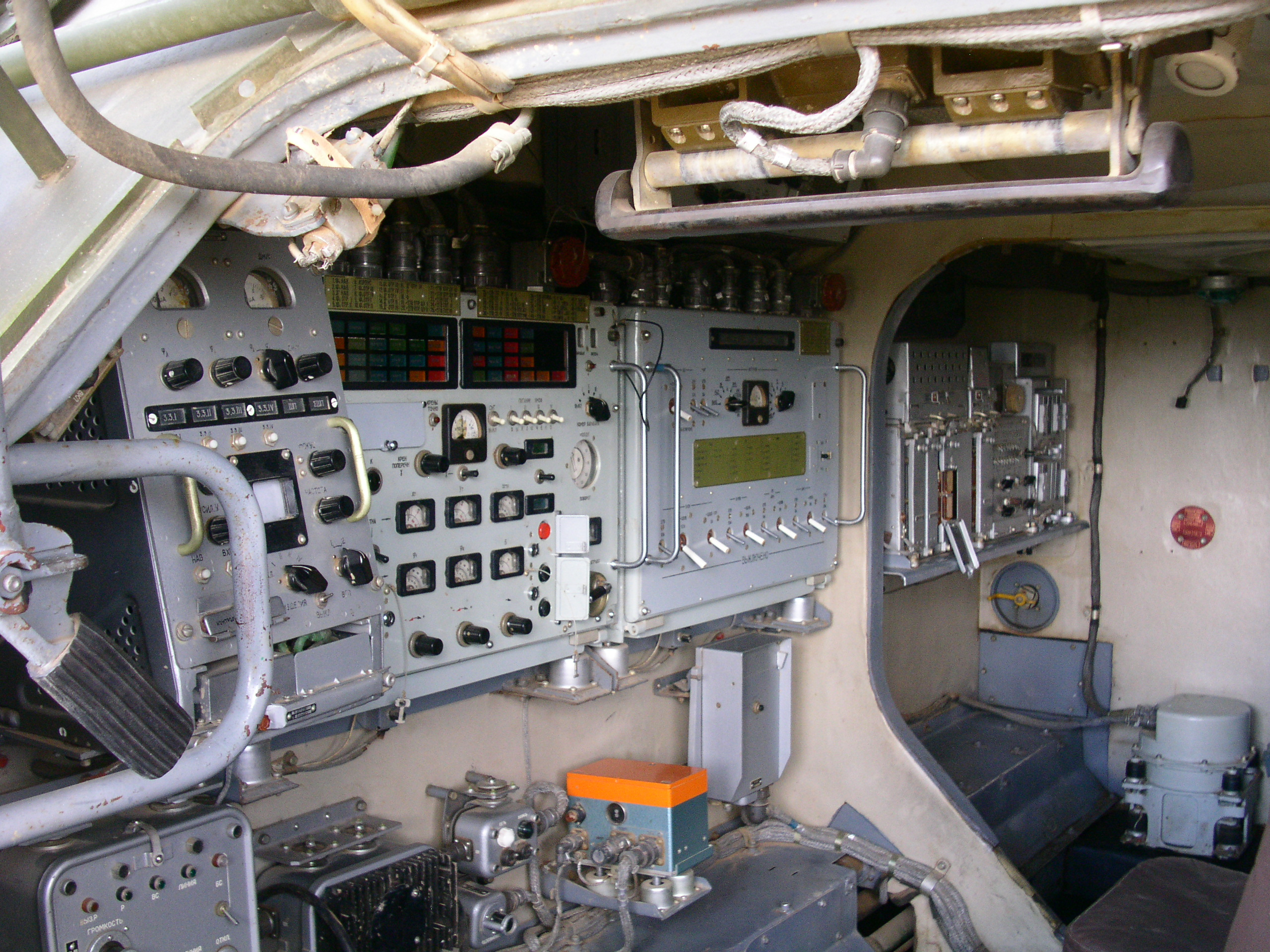 Interior of 9А39 TEL vehicle of Buk missile system